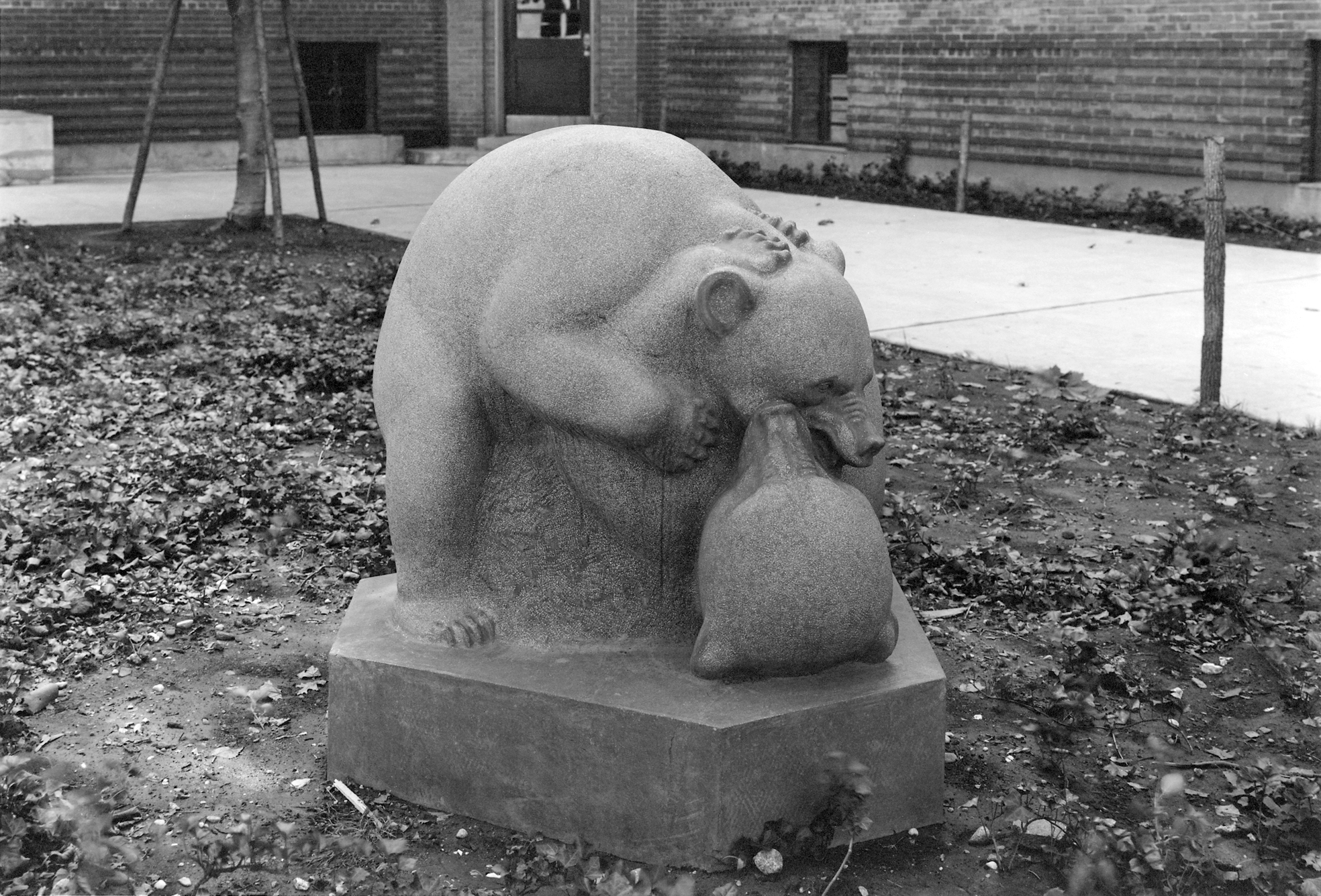 Photograph of the sculpture Bears Playing by Heinz Warneke, commissioned for the Harlem River Housing Project by the Treasury Relief Art Project